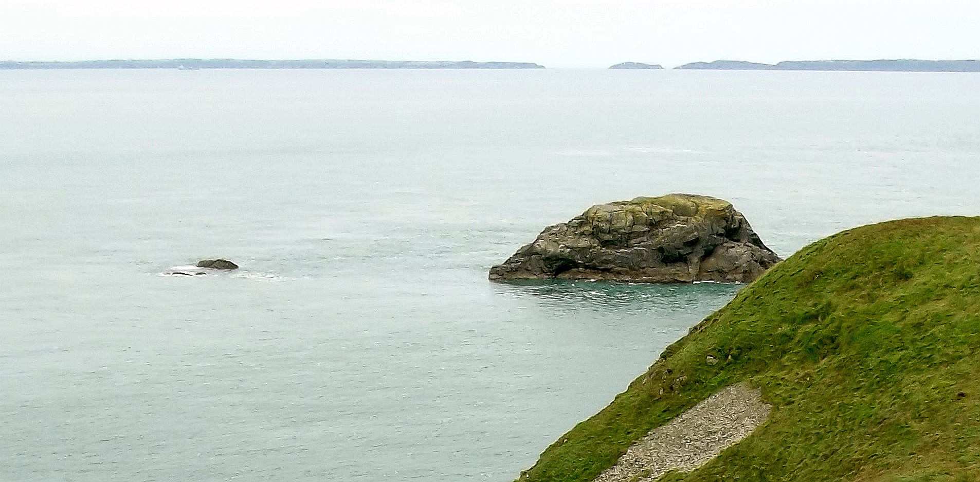 Ynys Eilun and Pont yr Eilun(left) from Ramsey Island; on the right the solpes of Ynys Cantwr (Wales, UK)